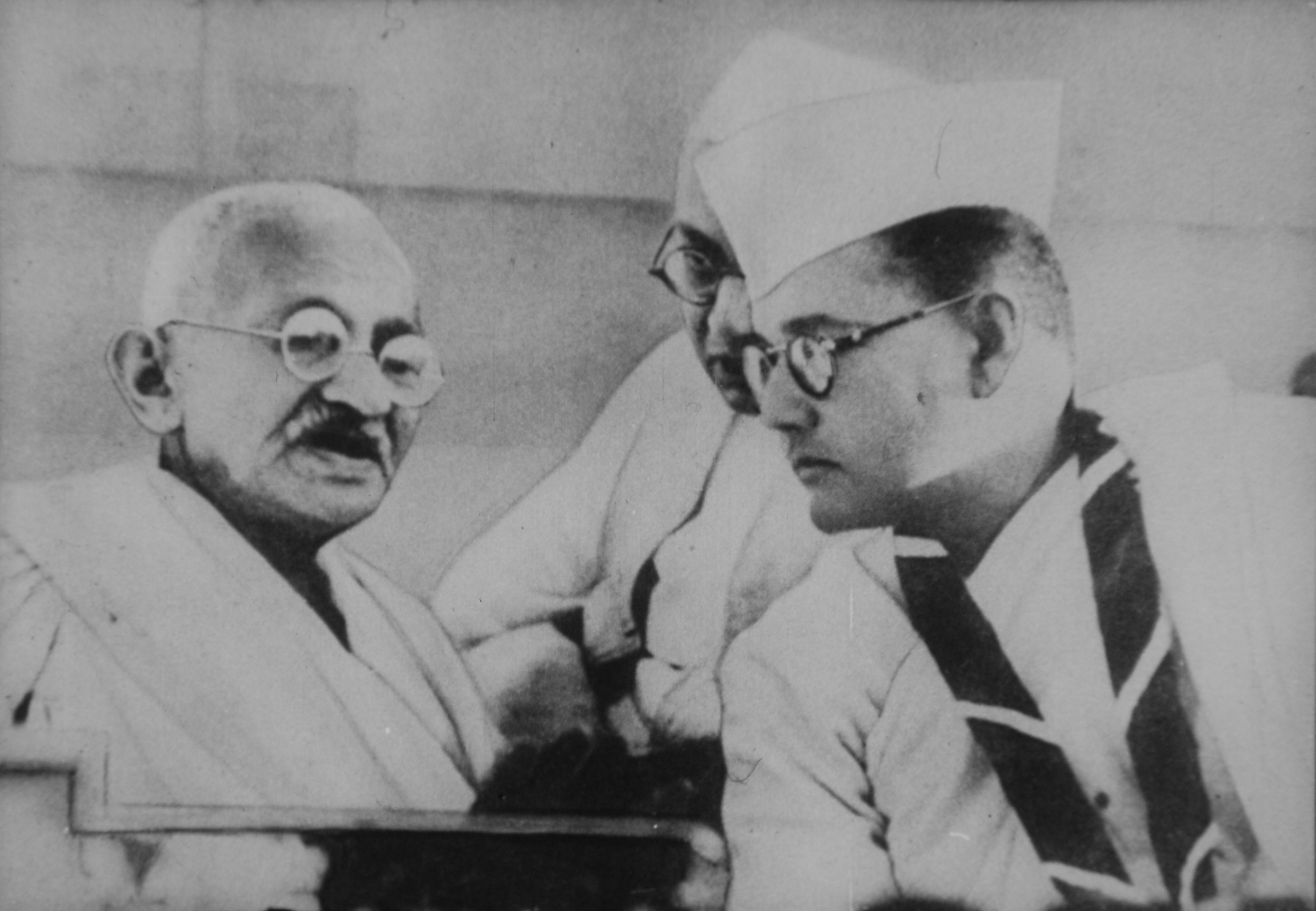 Gandhi and Subhas Bose, Haripura Congress meeting, 1938.